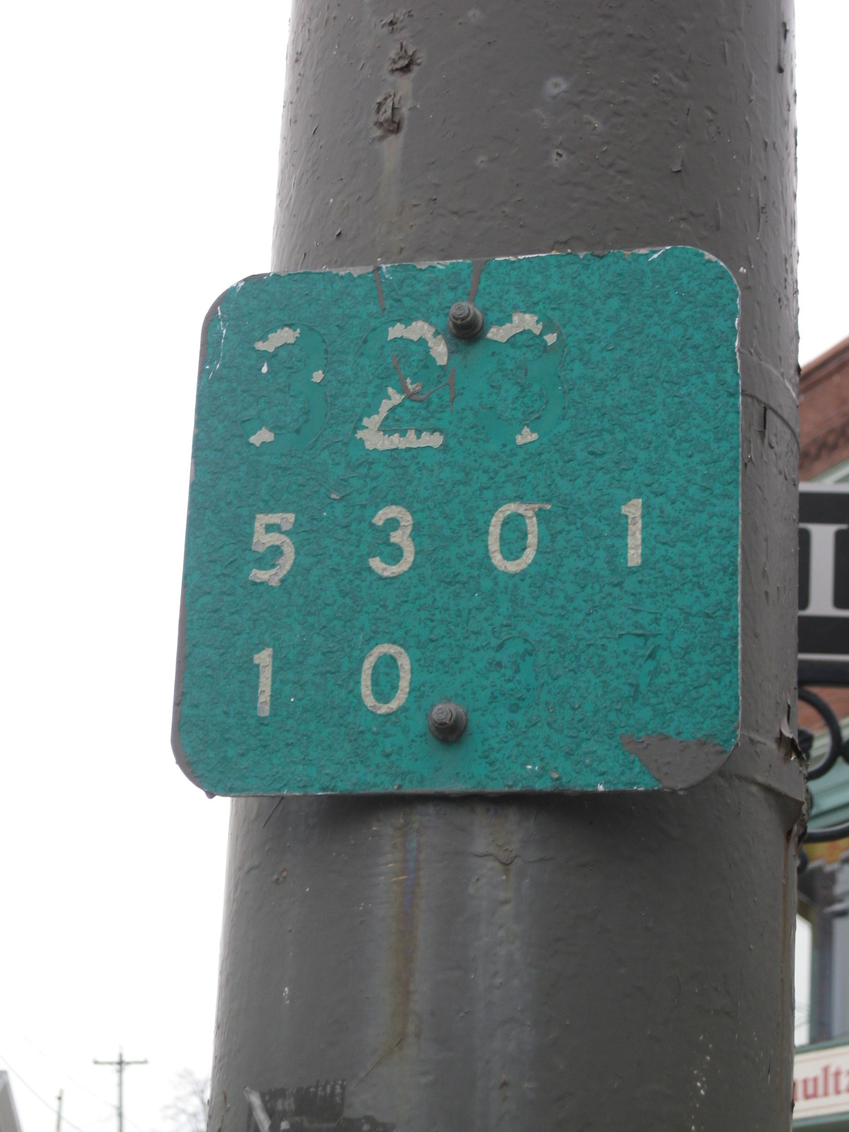 A reference marker depicting former New York State Route 323 in Buffalo's Southtowns, New York.